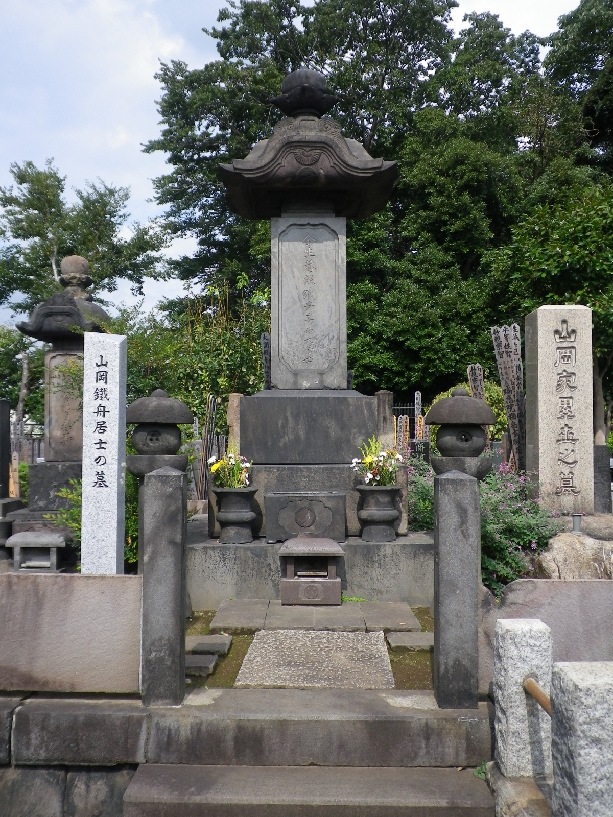 Grave of Yamaoka Tesshū at Zenshōan temple in Taitō, Tokyo.